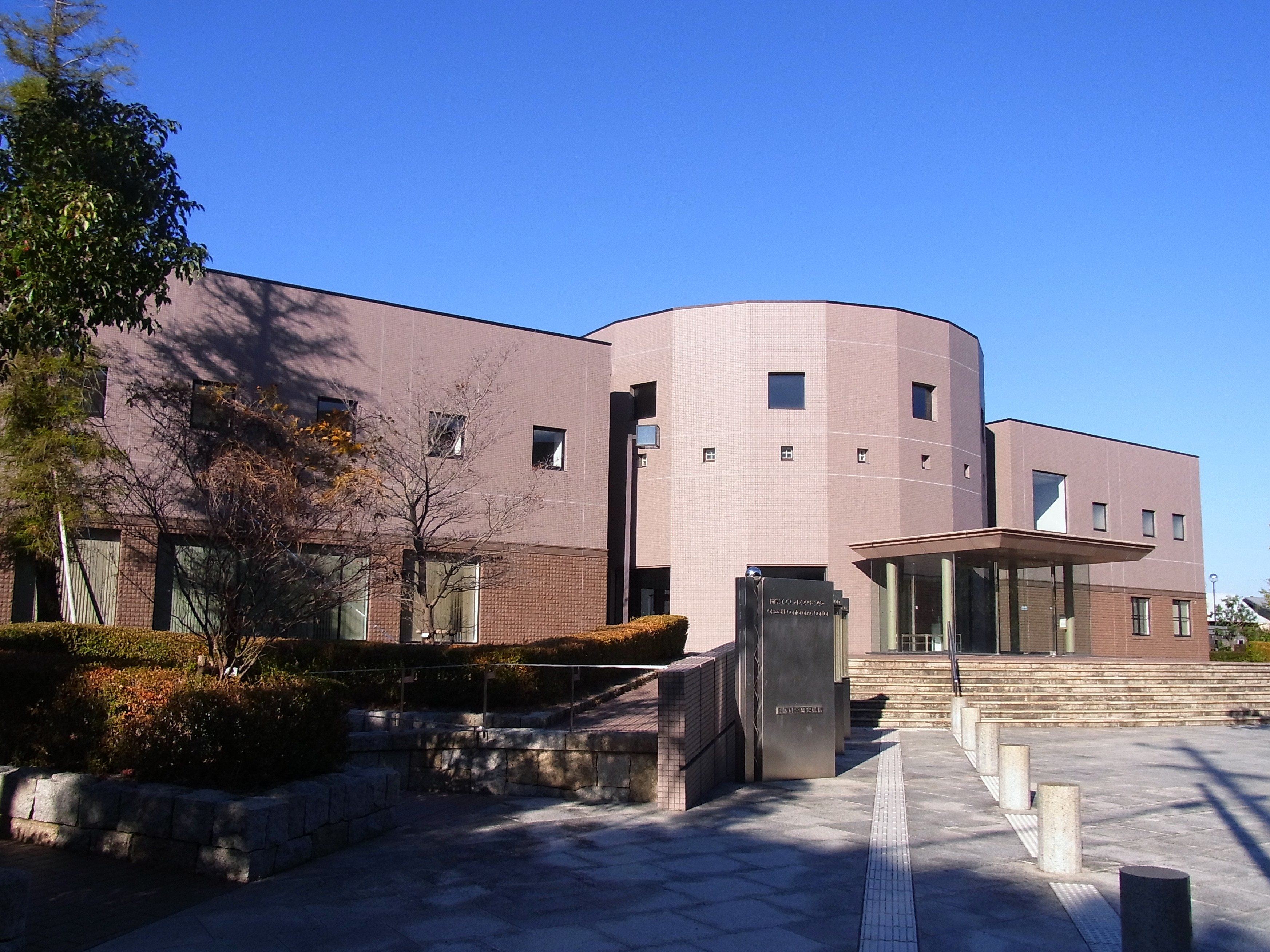 Okazaki Conference Center of National Institutes of National Science in Okazaki city, Aichi prefecture.